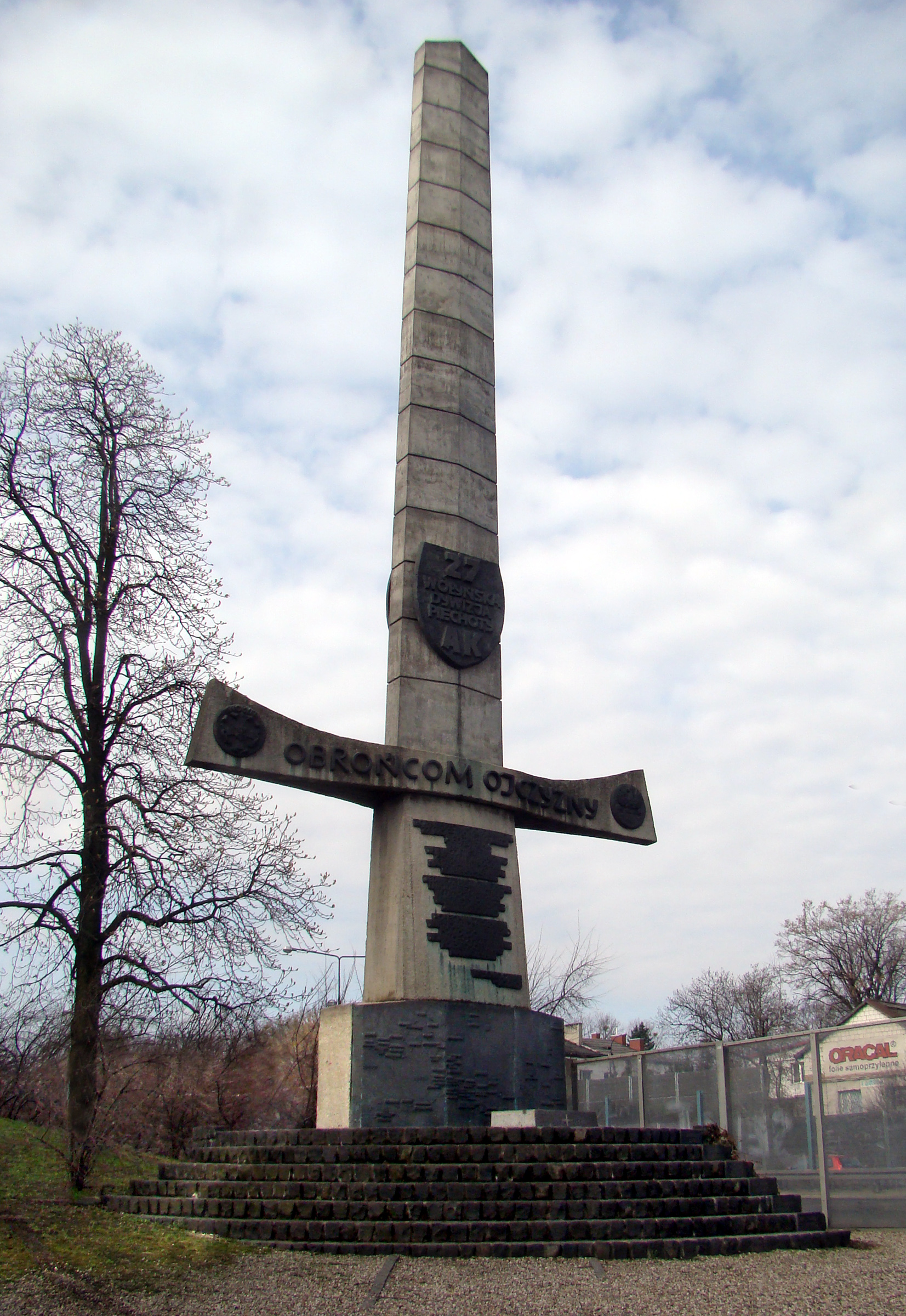 27th Volhynian AK Infantry Division Monument